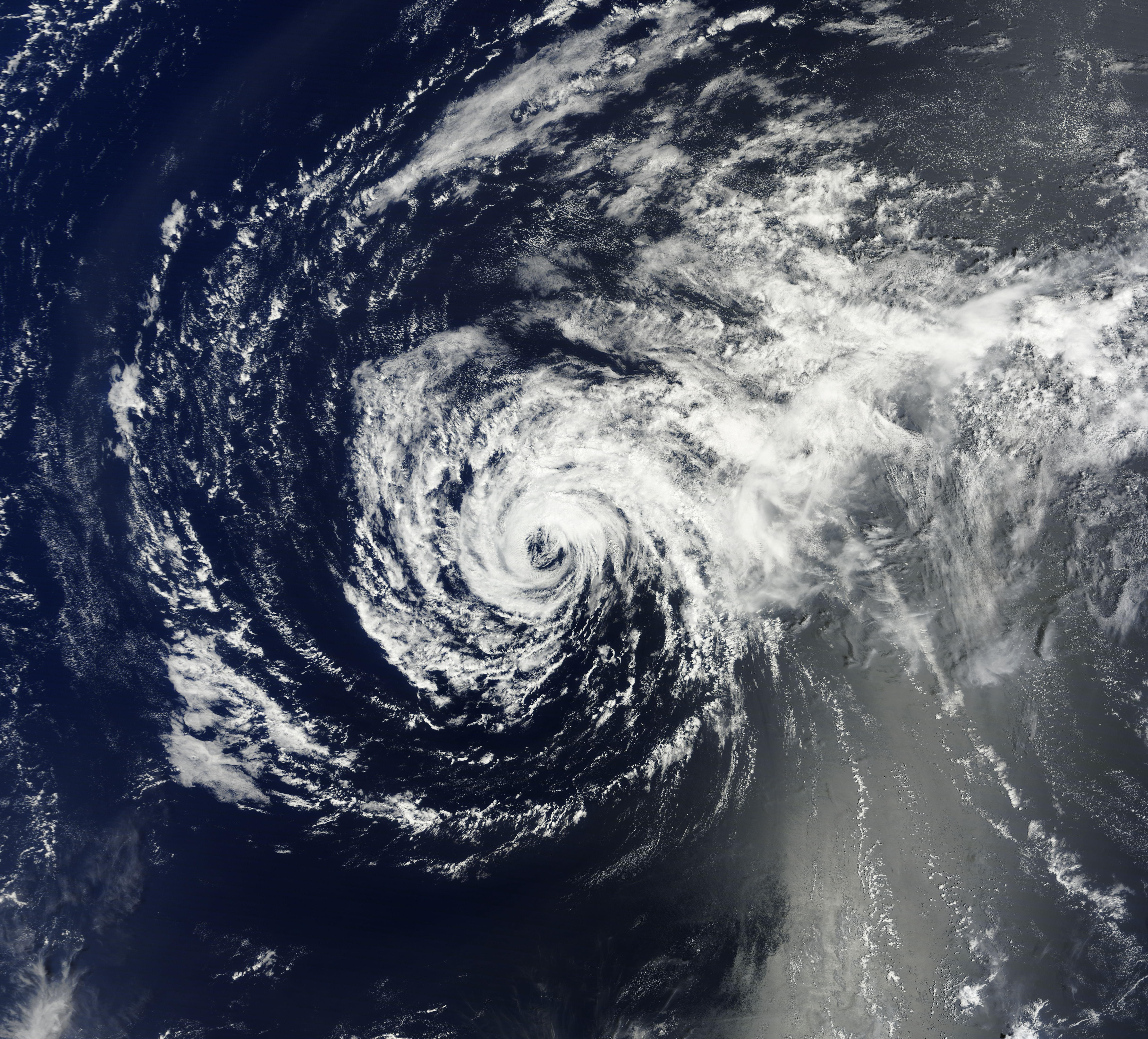 Tropical Storm Fred on September 3, 2015